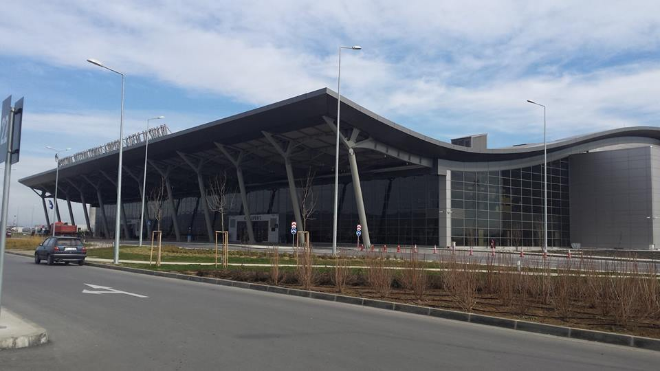 The view of Pristina International Airport